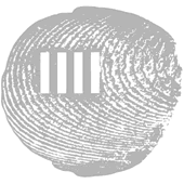 九州芸術工科大学のシンボル